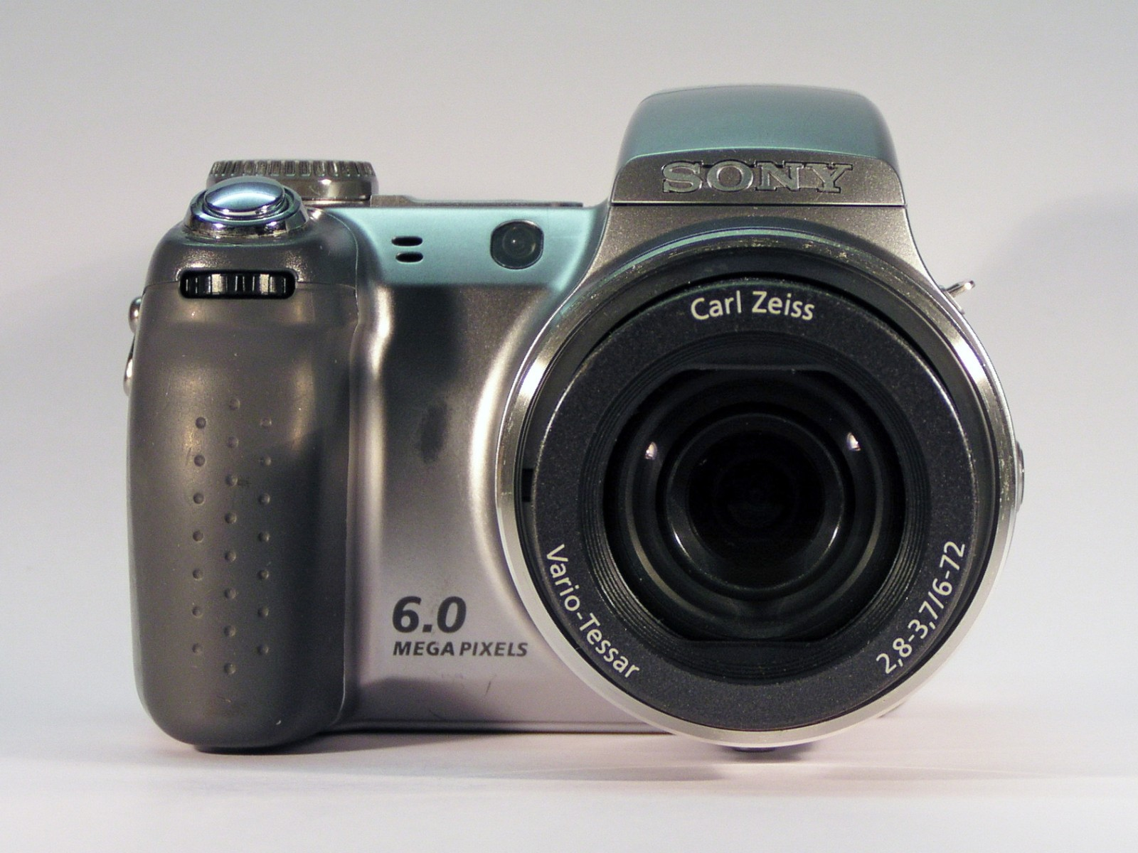 Digital camera Sony DSC-H2. Front view.